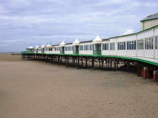 Pier